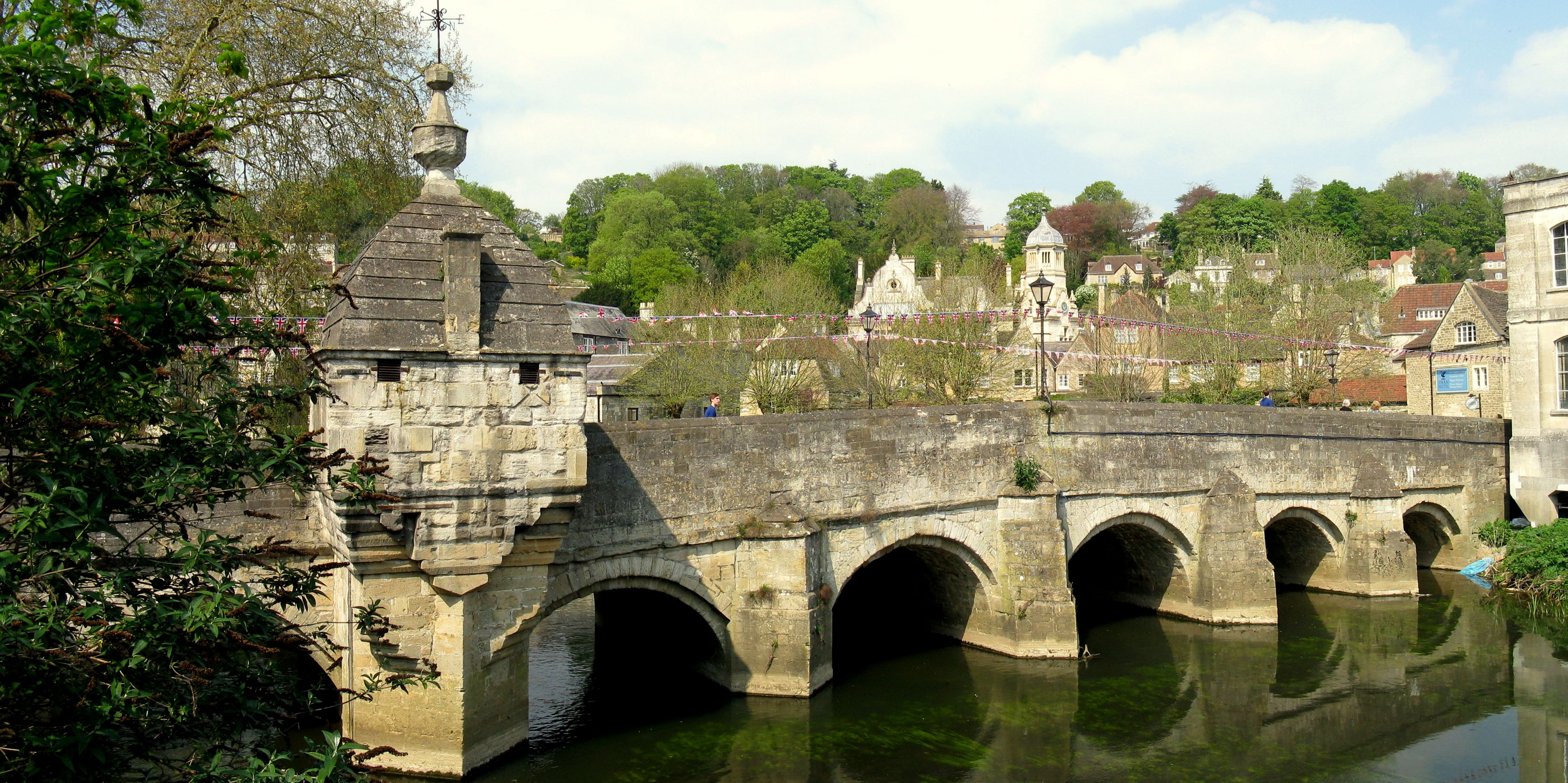 Bradford on Avon town bridge